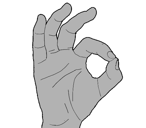 Dive sign: OK